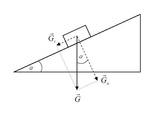 Decomposition of weight (G) on inclined plane